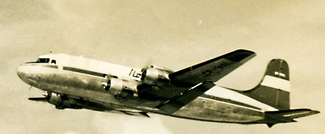 This aircraft went to the US airline Trans Caribbean after its service in the USAF. It then went to Canada with Nordair and finished its days in the Arctic with Wheeler Airlines.